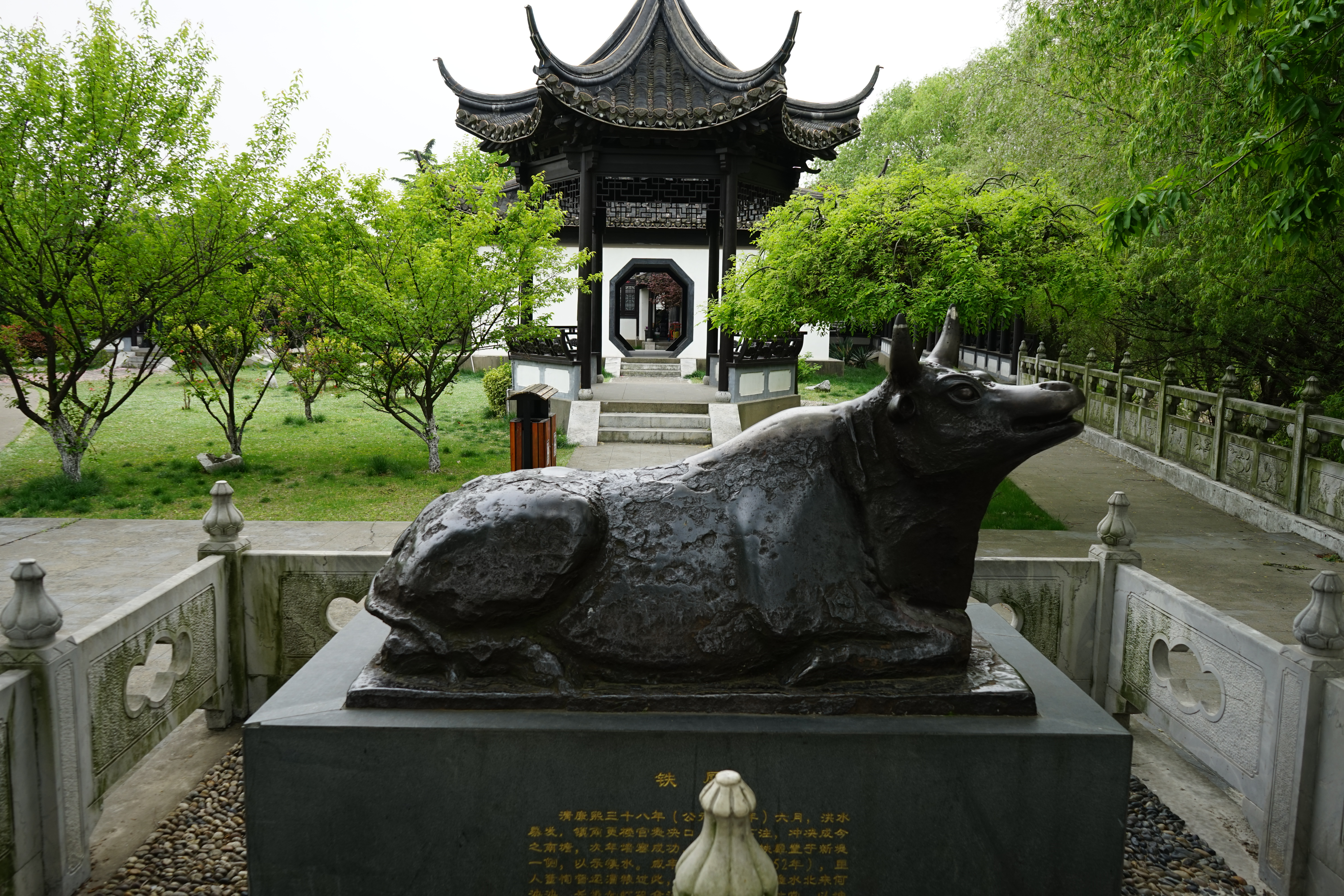 Iron Rhinocero (铁犀，也称铁牛). In 1699 a flood happened in Jiangdu, and was not solved until 1700. In 1701 the Iron Rhinocero was casted, symbolizing the control of water.